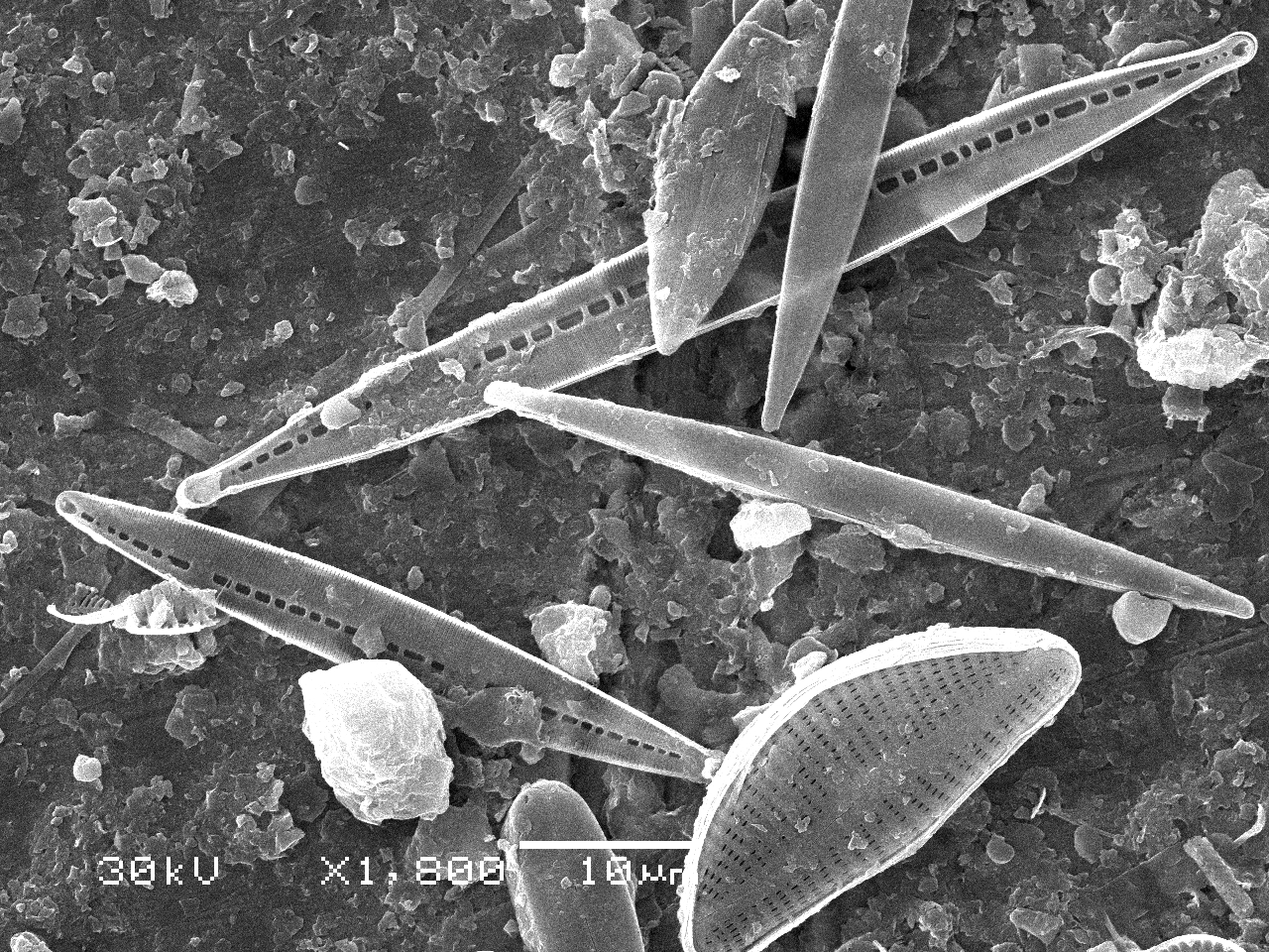 SEM Foto.Diatom samples were treated with cold acid method (Krammer & Lange-Bertalot, 1986).Diverse of diatom algae. The cells are surrounded by a rigid two-part box-like cell wall composed of silica, called the frustule.The outer of the two half-walls is the epitheca and the inner the hypotheca. In the picture you can find representatives of both genera Navicula Bory,Nitzschia Hassall,Cymbella C.Agardh.